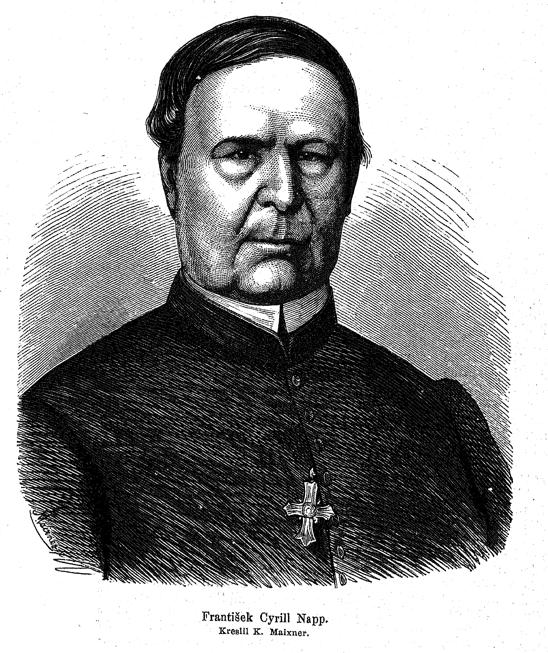 Portrait of Cyril František Napp (1792 - 1867), Moravian abbot, politician and promoter of education and sciences in Brno.